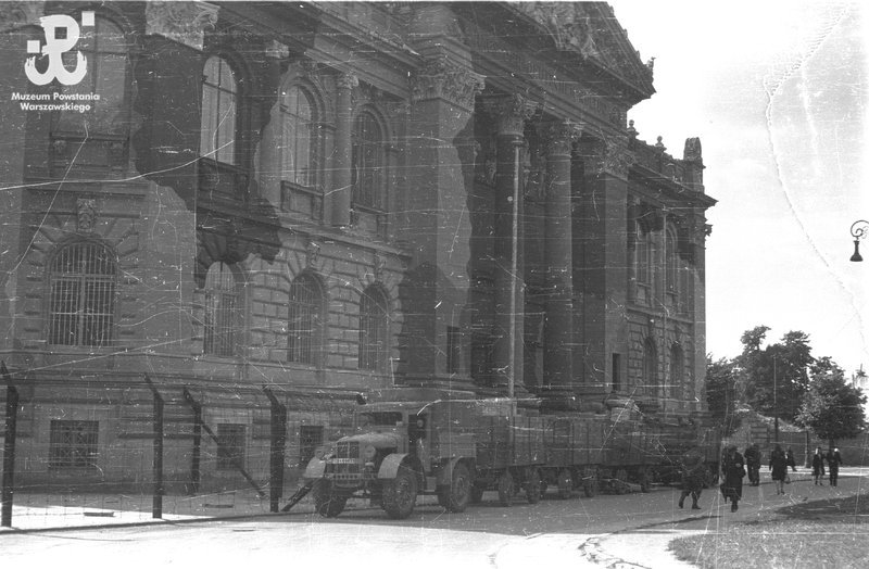 Month before WarsawUprising: Germans loading trucks with Polish artwork at Zachęta building at Plac Małachowskiego 3. Better quality photo